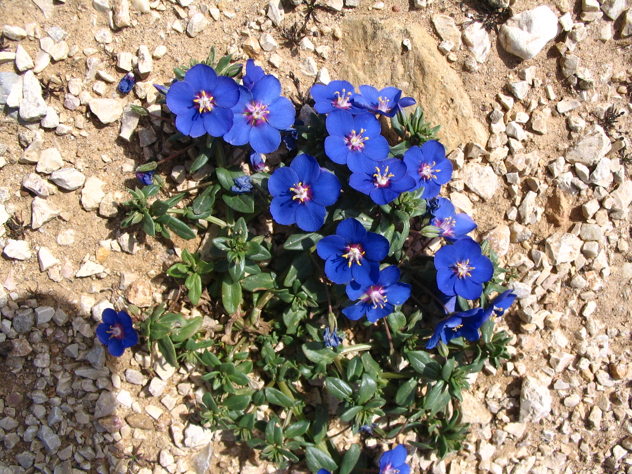 Anagallis monelli